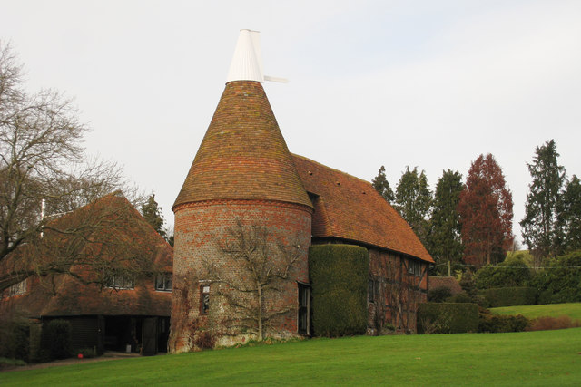 The Oast, Bassetts Manor, Buctherfield Lane, Hartfield, East Sussex Single round kiln oast house, very sensitively converted. Many early oast houses were adapted from existing barns. This is a c17 half timbered barn with an early-mid c19 round kiln. Blinkered Sussex cowl. Grade II listed